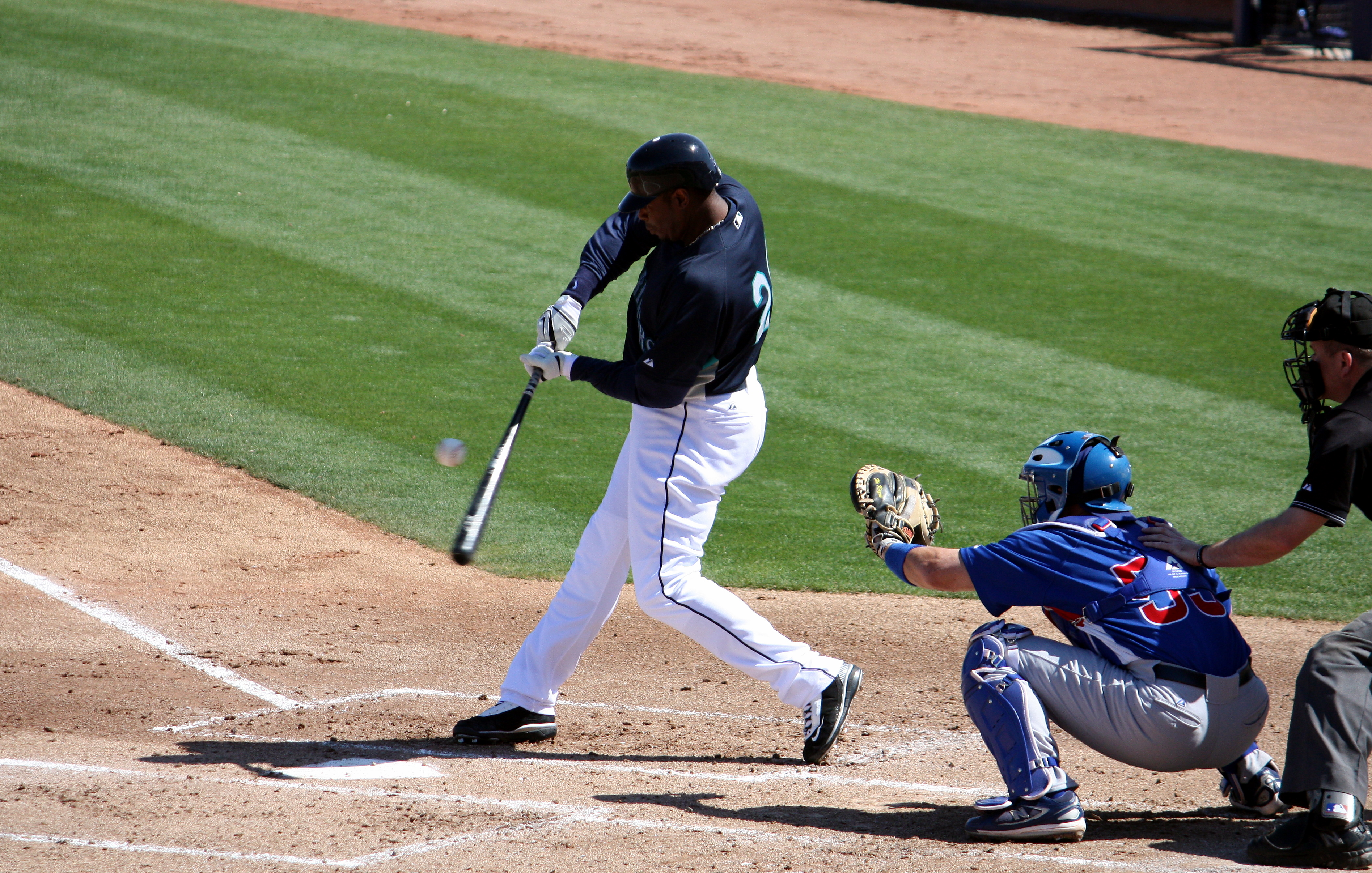 Ken Griffey Jr. Bats against the Cubs in spring training 2009.